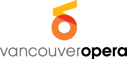 Vancouver Opera Logo